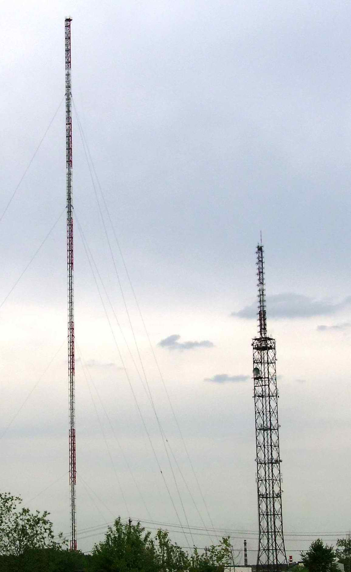 Aerials of Radio Station in the Balashiha, Russia